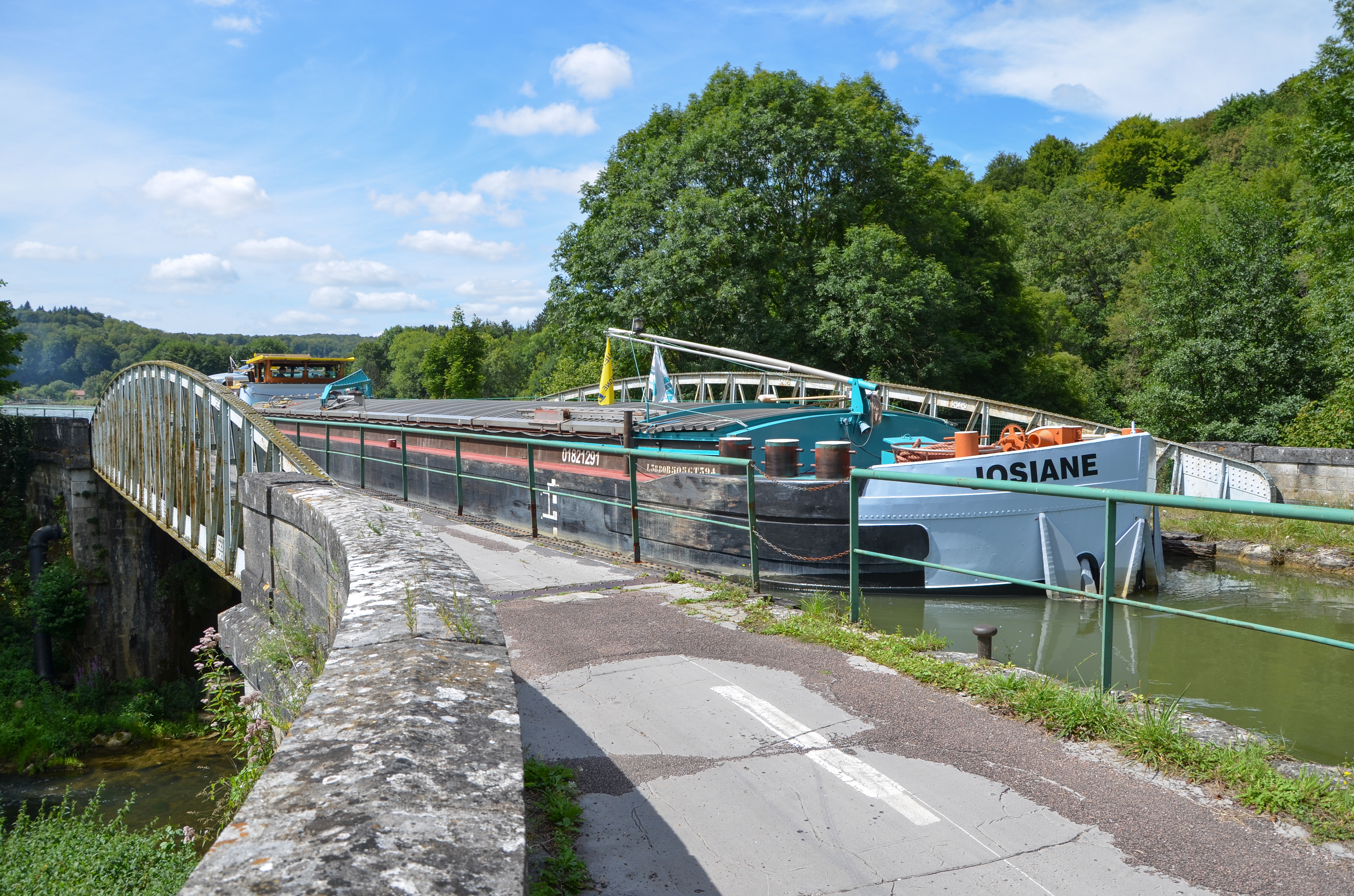 Canal aqueduct on the Saône to the Marne canal near Foulain (Haute Marne, France) crosses the River Marne